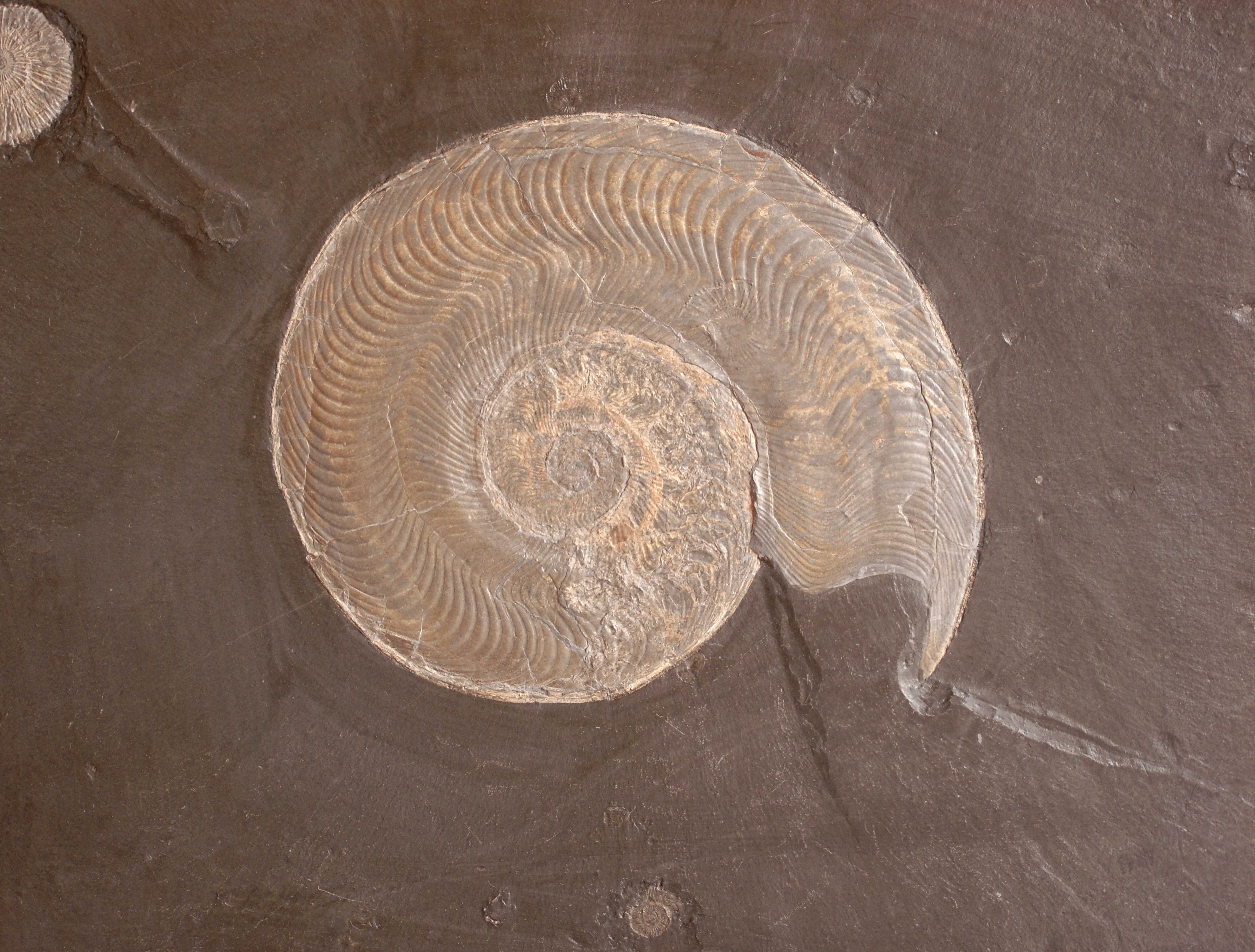 Posidonia shale (Holzmaden, Baden-Wuerttemberg, Germany) Harpoceras falcifer